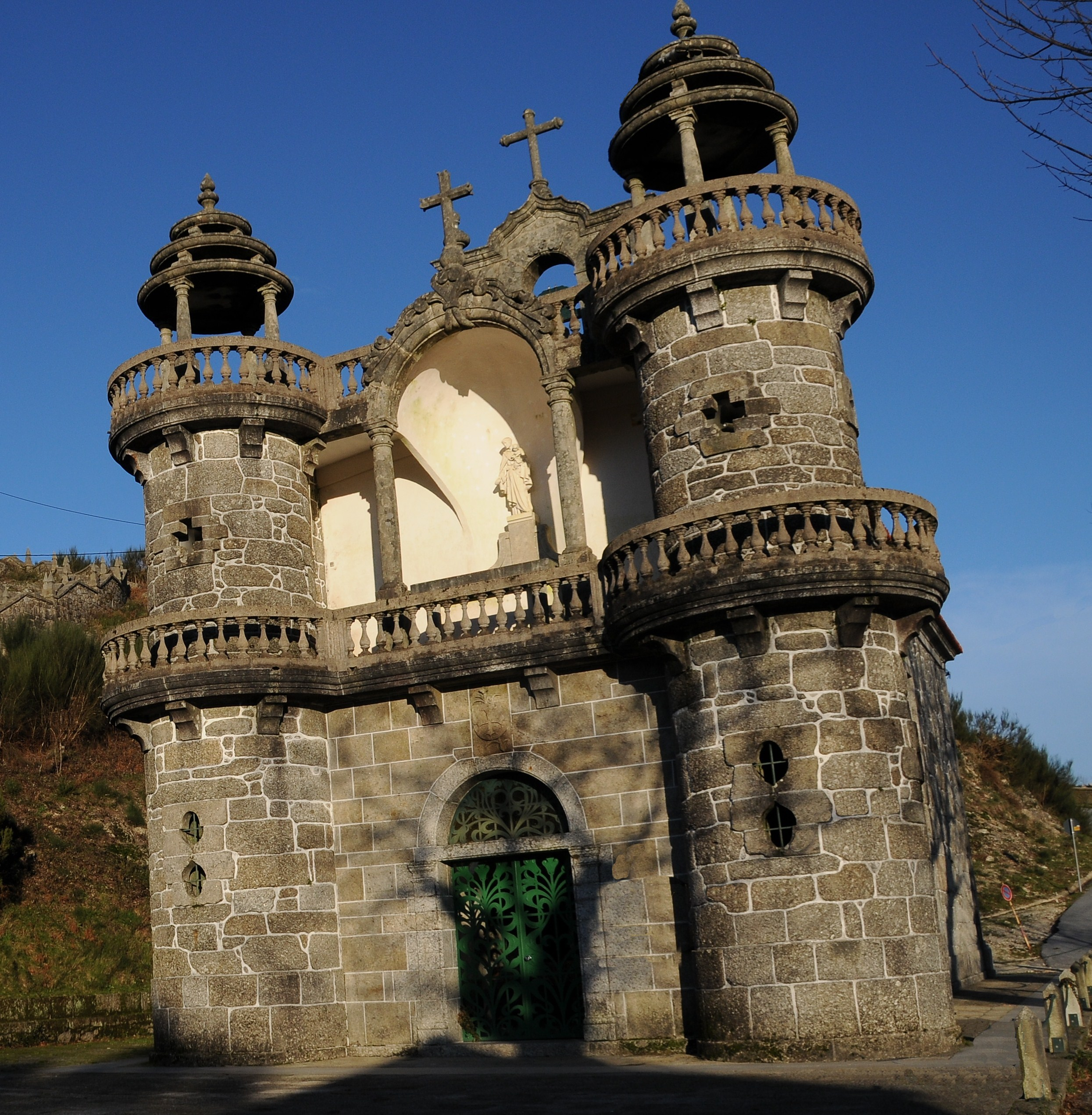 Santo António de Michões da Serra Church, Valdreu, Vila Verde, Portugal.